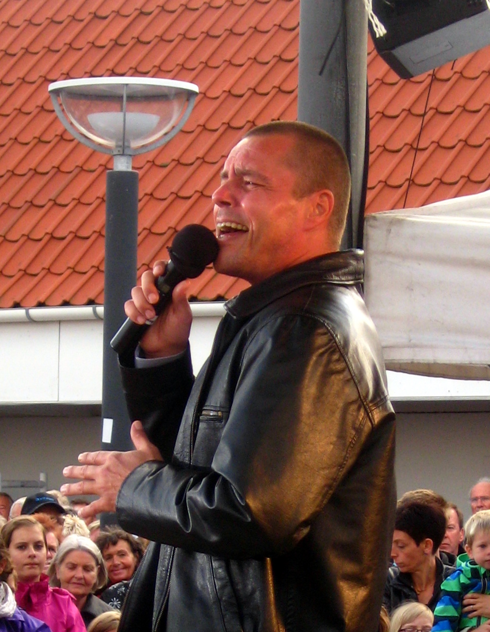 Kenny Lübcke, a Danish singer, performing in Blokhus, Denmark, 2012